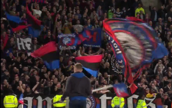 Holmsdale fanatics celebrate Crystal Palace's victory over Arsenal 3-0